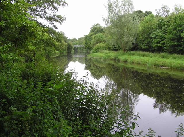 Camowen River. Looking SSW; in the distance is Sandra Jones Bridge, see 1364098